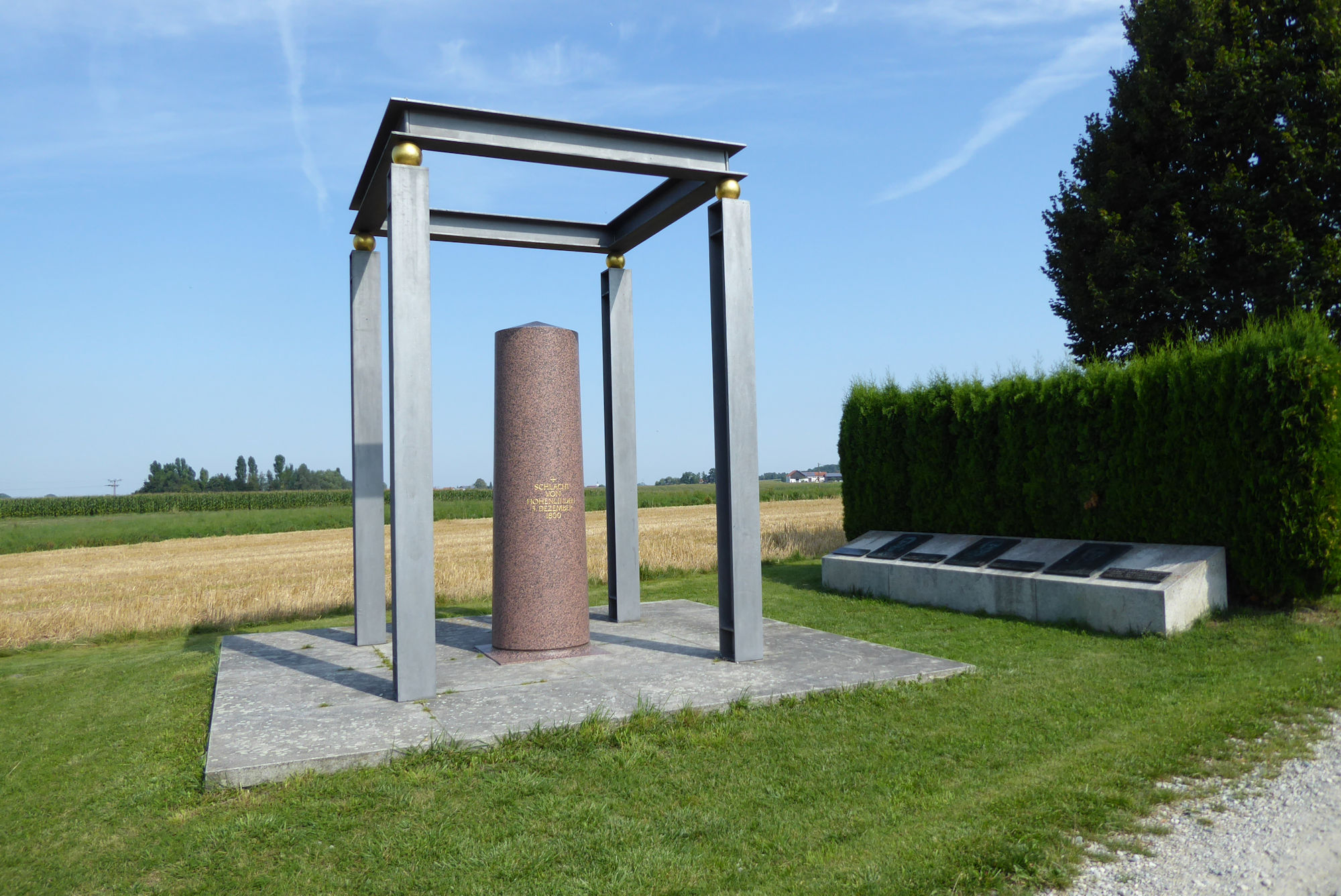 memorial to the battle of Hohenlinden, northeast of Hohenlinden, Bavaria